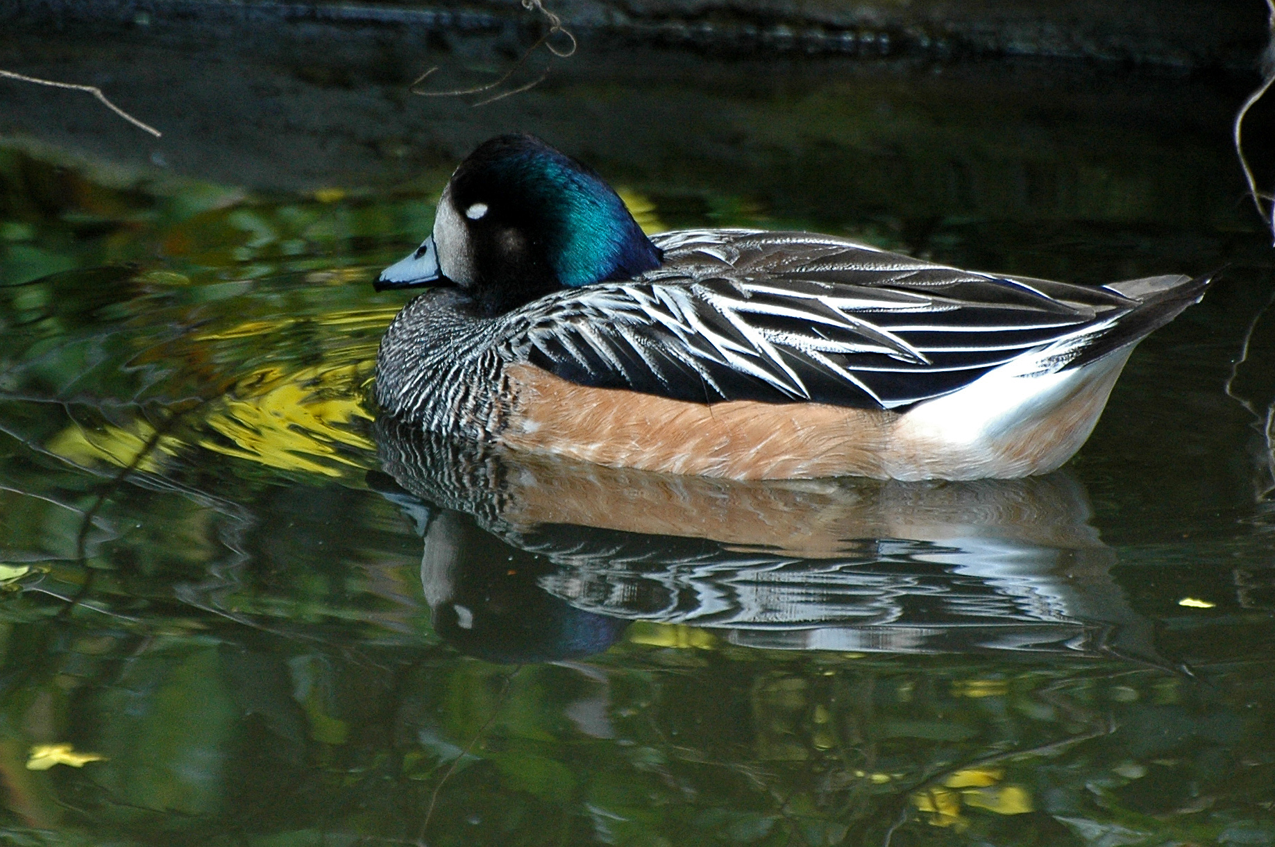 Chiloé Wigeon, Mareca sibilatrix, in the Birds of Eden Park